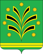 Coat of arms of Chernomorski, Severskaya, Krasnodar, Russia